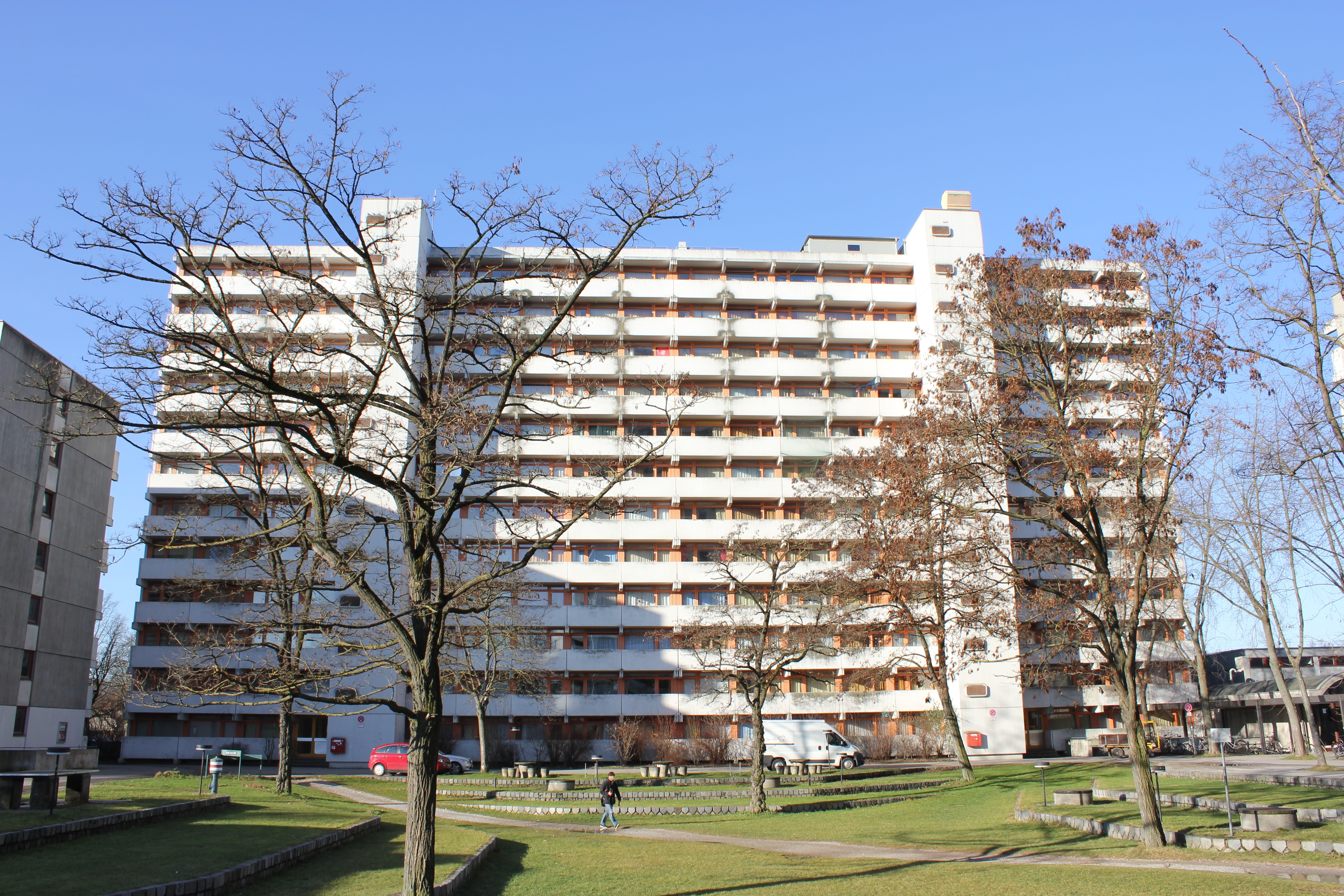 Studentenstadt Freimann in Munich